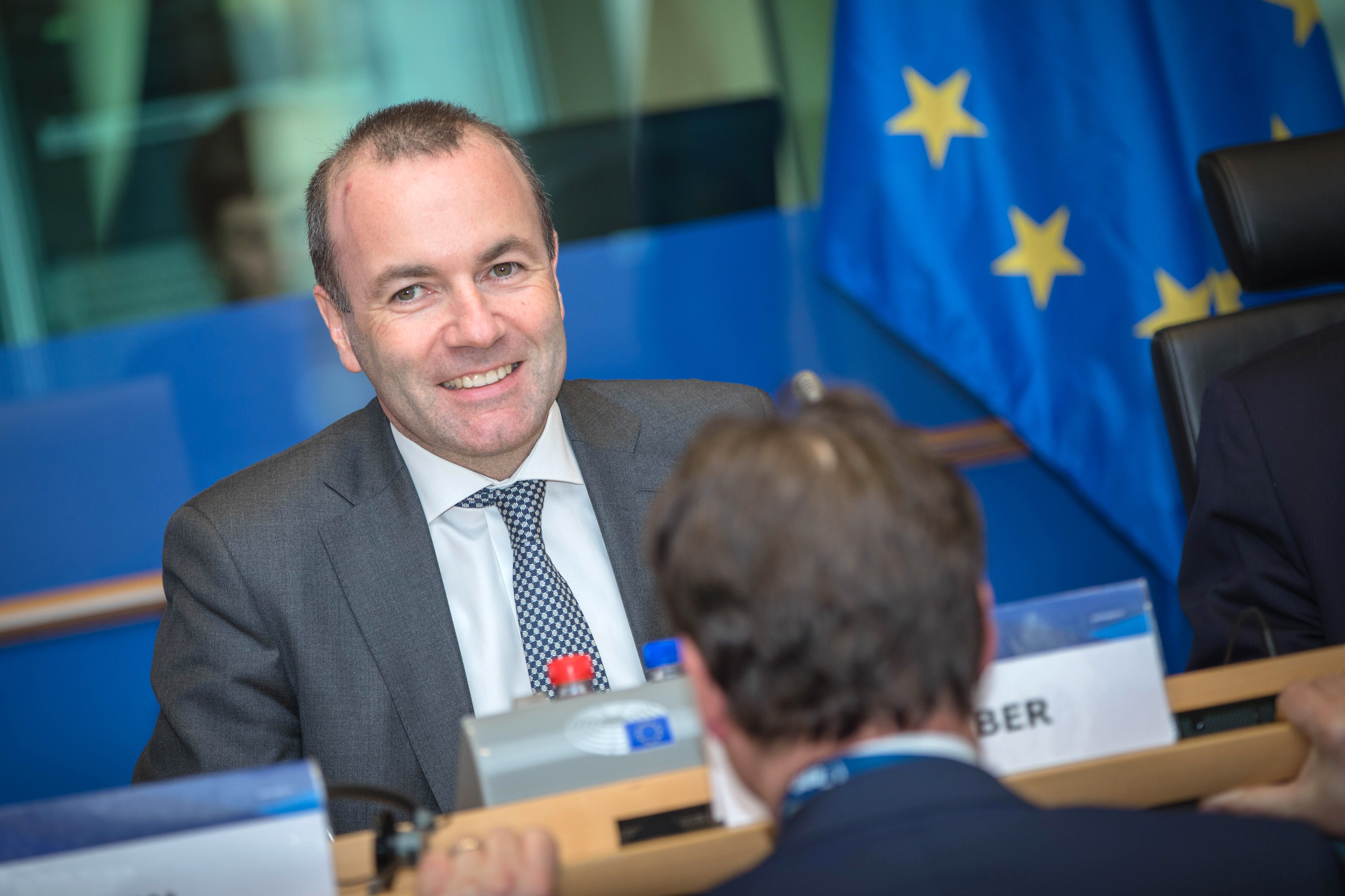 EPP Political Assembly, 20 March 2019